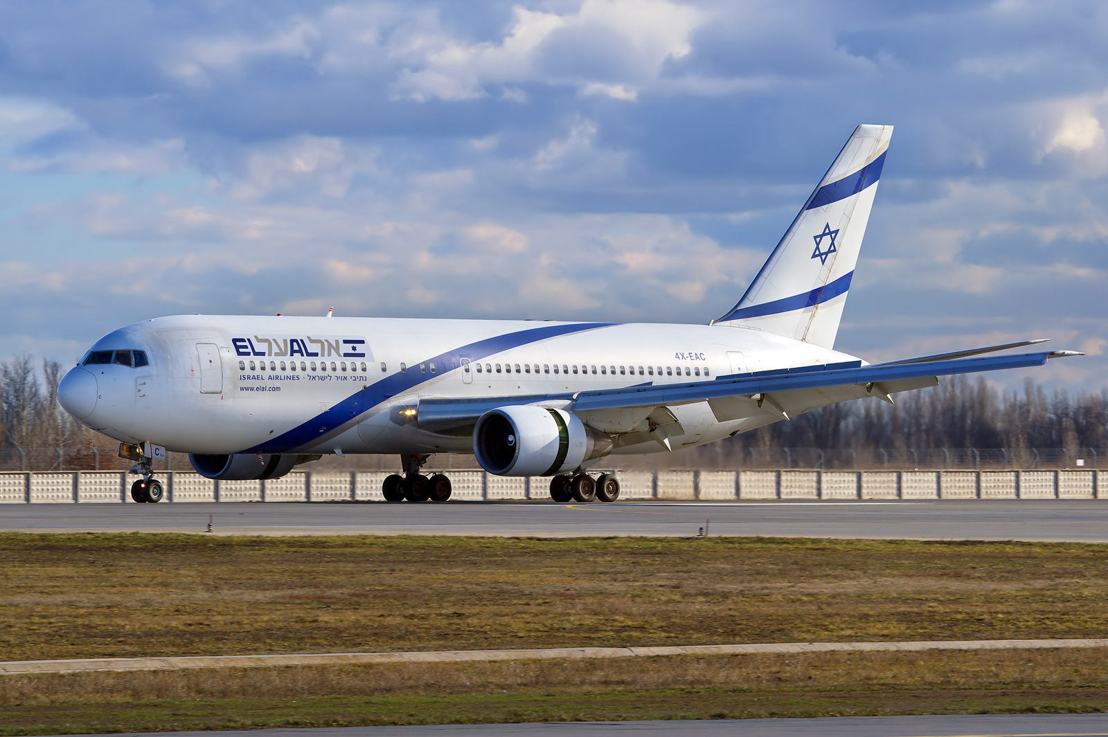 An El Al Boeing 767-258/ER at Borispol Airport (KBP / UKBB)